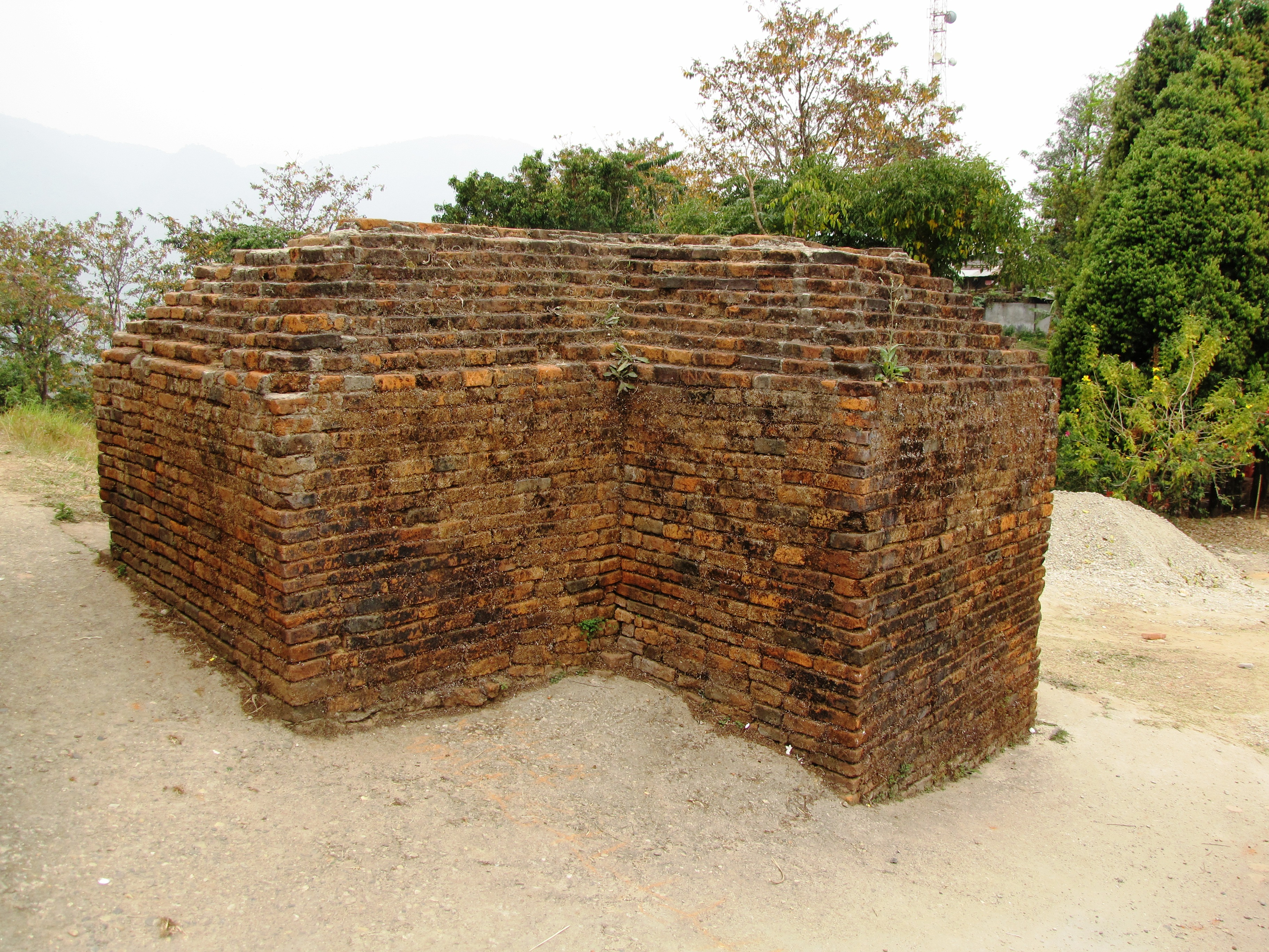 Brick wall. Part of southern gate of Ita Fort, Itanagar, Arunachal Pradesh, India.